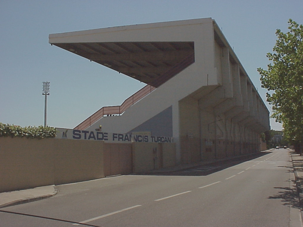 FC Martigues stadium Picture taken by me in 2000